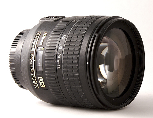 A Nikon Nikkor 18-70mm DX that I no longer own. This was a quick shot for the ebay listing. I replaced it with a much better 18-200 VR for general use.